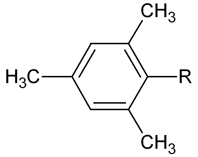 Mesityl-group